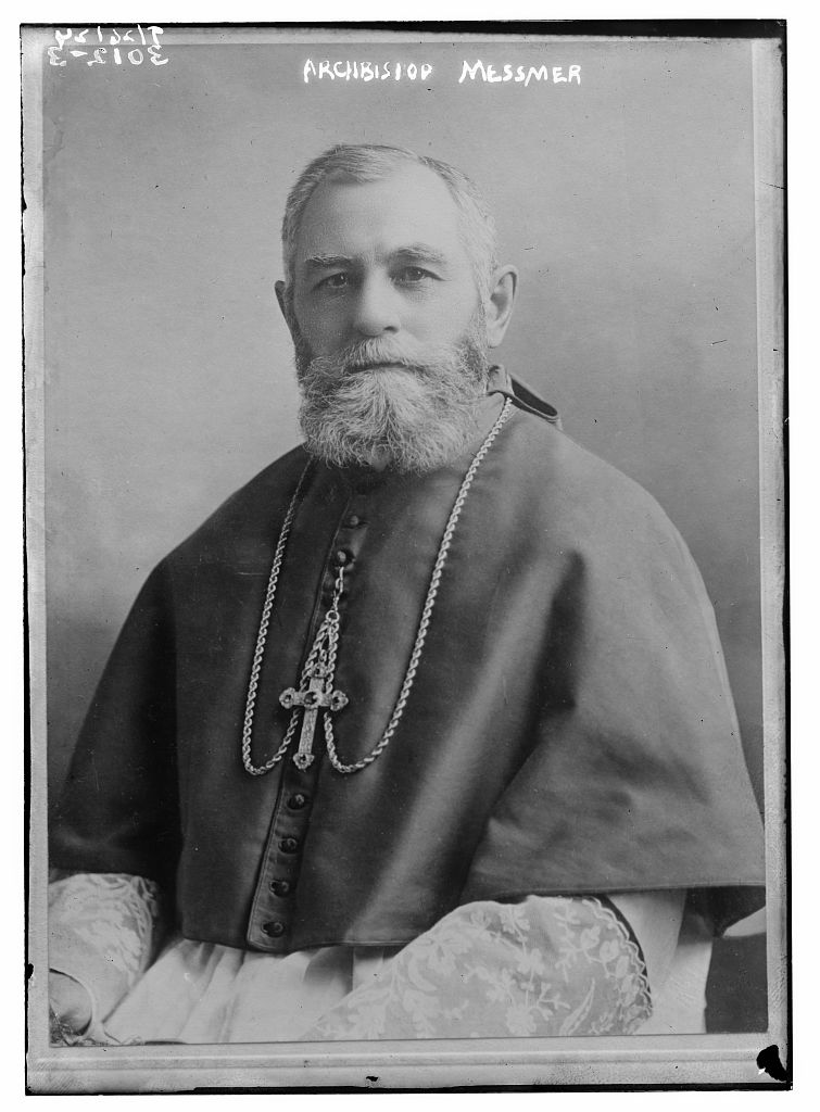 Bain News Service,, publisher. Archbishop Messmer [between ca. 1910 and ca. 1915] 1 negative : glass ; 5 x 7 in. or smaller. Notes: Title from unverified data provided by the Bain News Service on the negatives or caption cards. Forms part of: George Grantham Bain Collection (Library of Congress). Format: Glass negatives. Repository: Library of Congress, Prints and Photographs Division, Washington, D.C. 20540 USA, General information about the Bain Collection is available at Persistent URL: Call Number: LC-B2- 3012-3